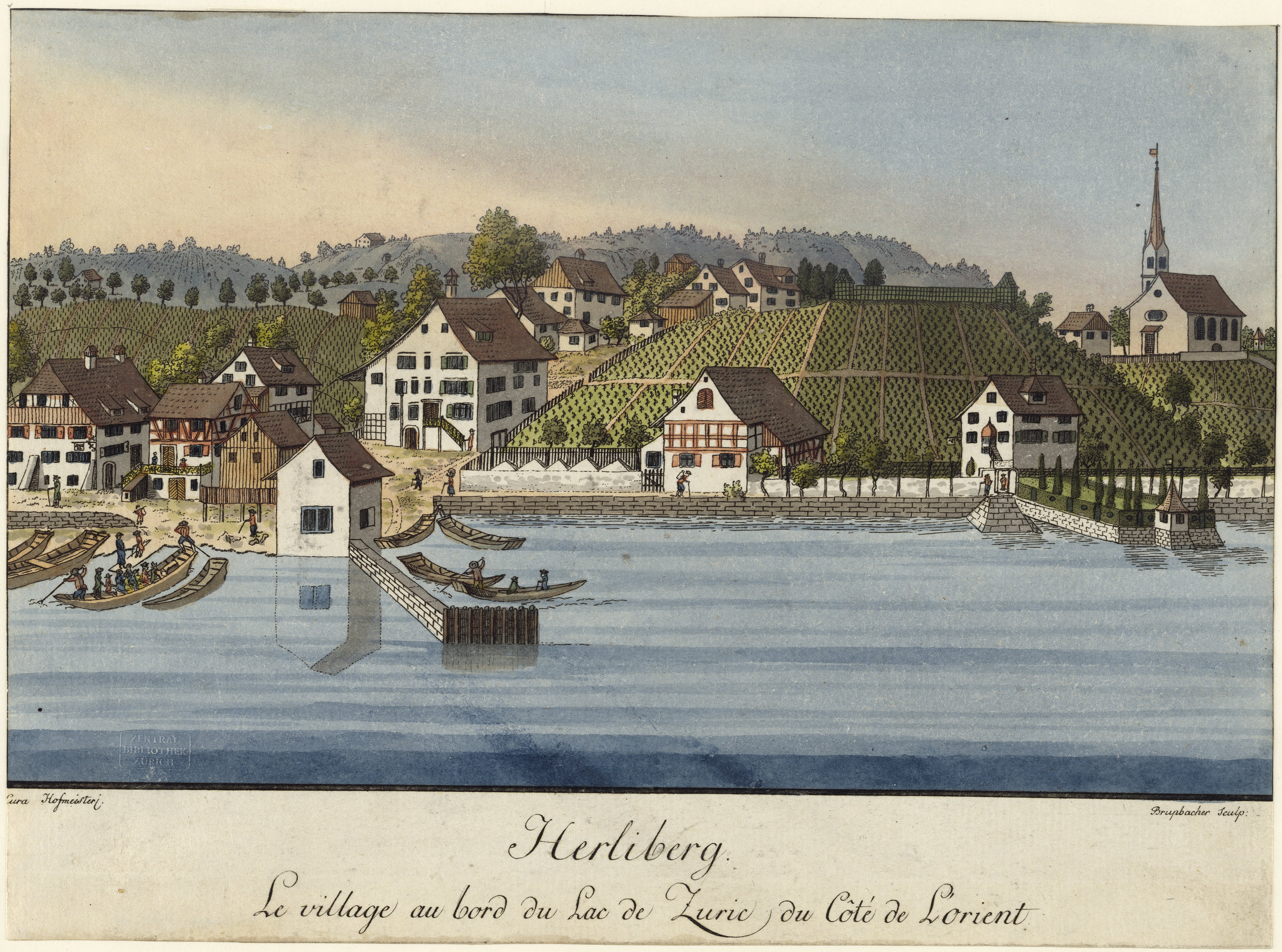 Herliberg [now called Herrliberg-translator's note] , the village on the banks of Lake Zurich, east side